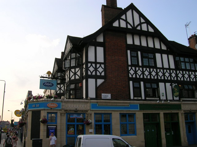 Belushi's at the Junction of Plender Street and Camden High Street, London NW1